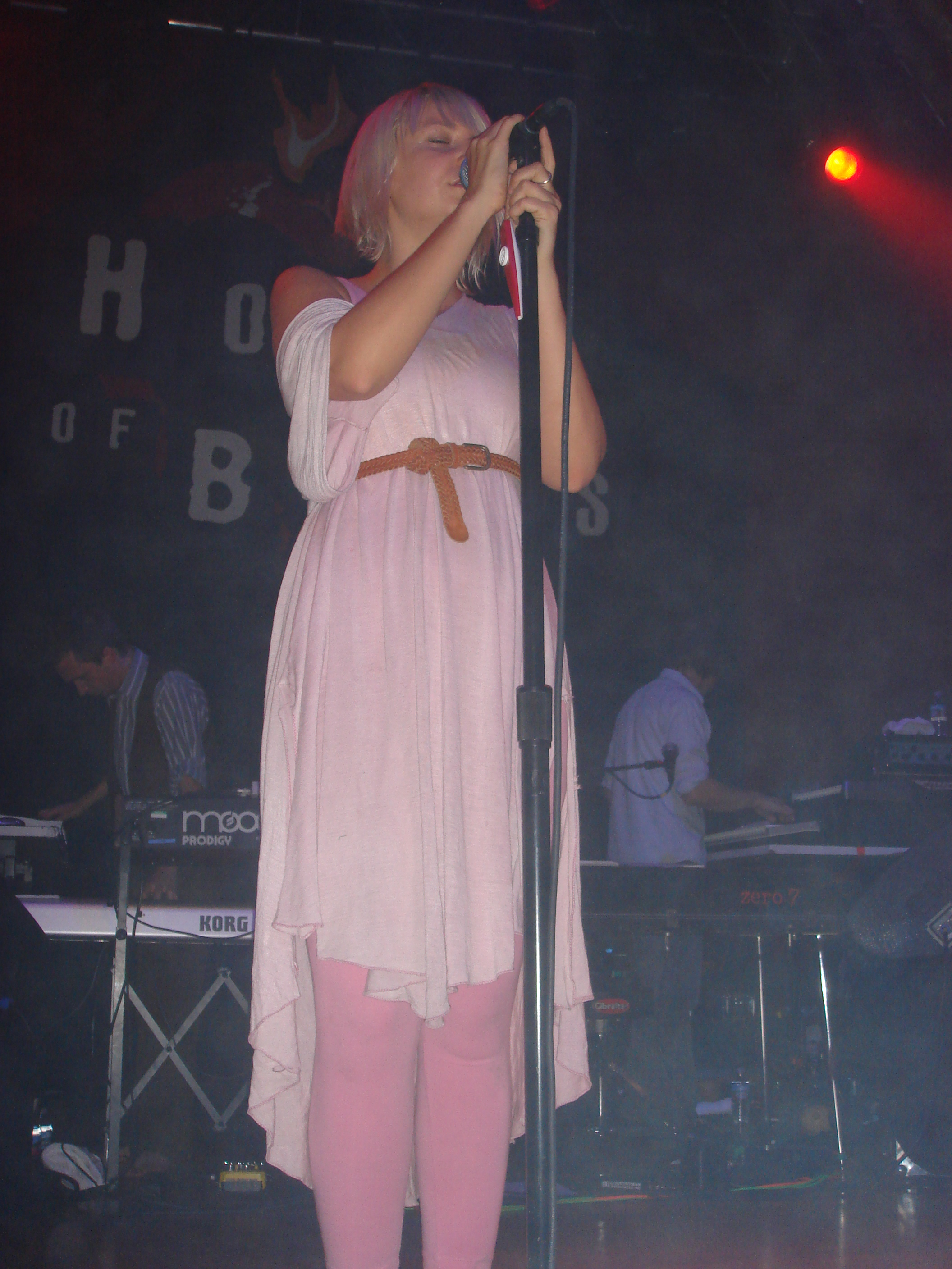 Sia Furler in concert with Zero 7 at the House of Blues in San Diego.